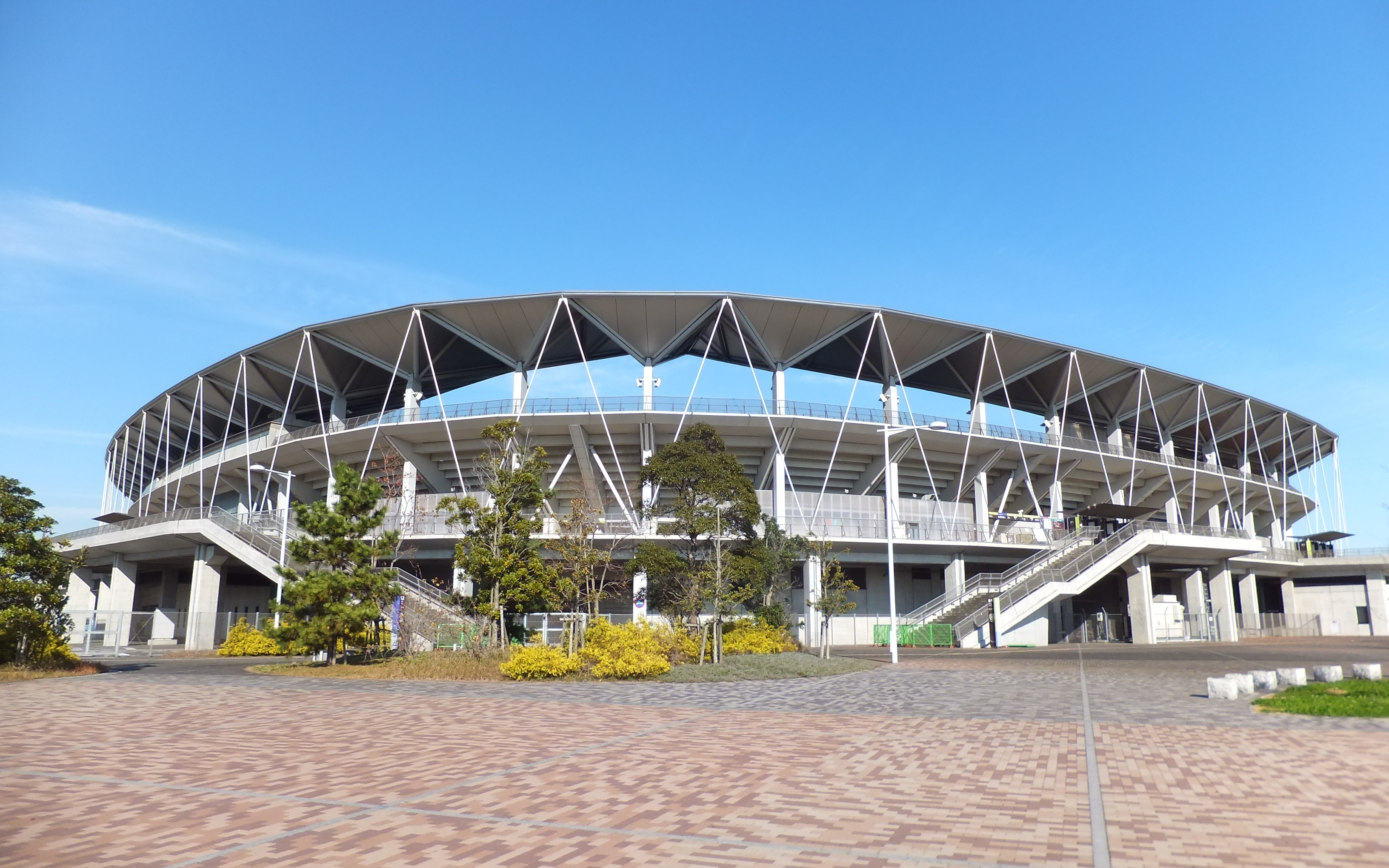 Fukuda Denshi Arena is an association football stadium in Chiba City, Japan. It is used as a home field of the J. League club JEF United Ichihara Chiba.